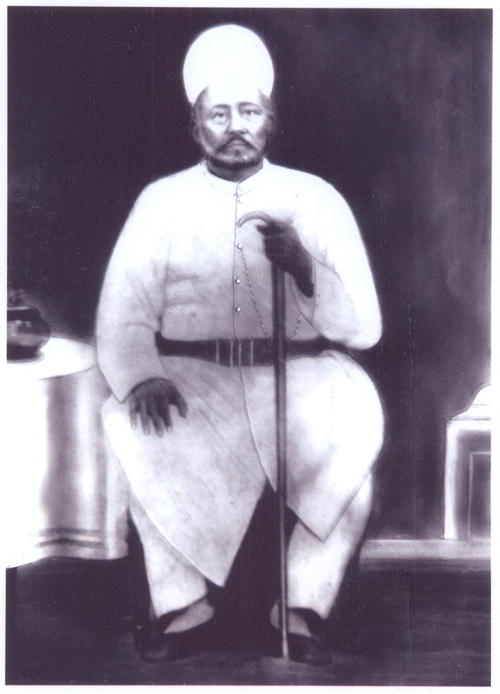 Founder of VSt Industries, Late Mr. Vazir Sultan